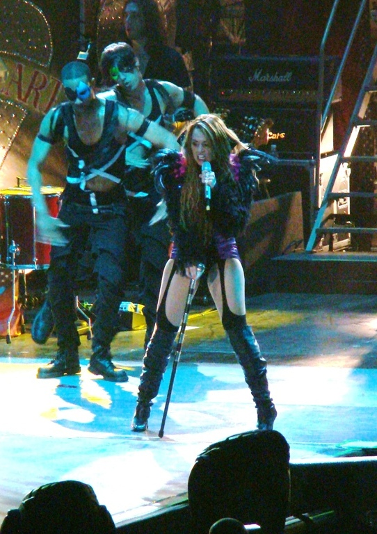 Miley Cyrus singing live in Curicica, Rio de Janeiro, RJ, BR from her tour 'Gypsy Heart'